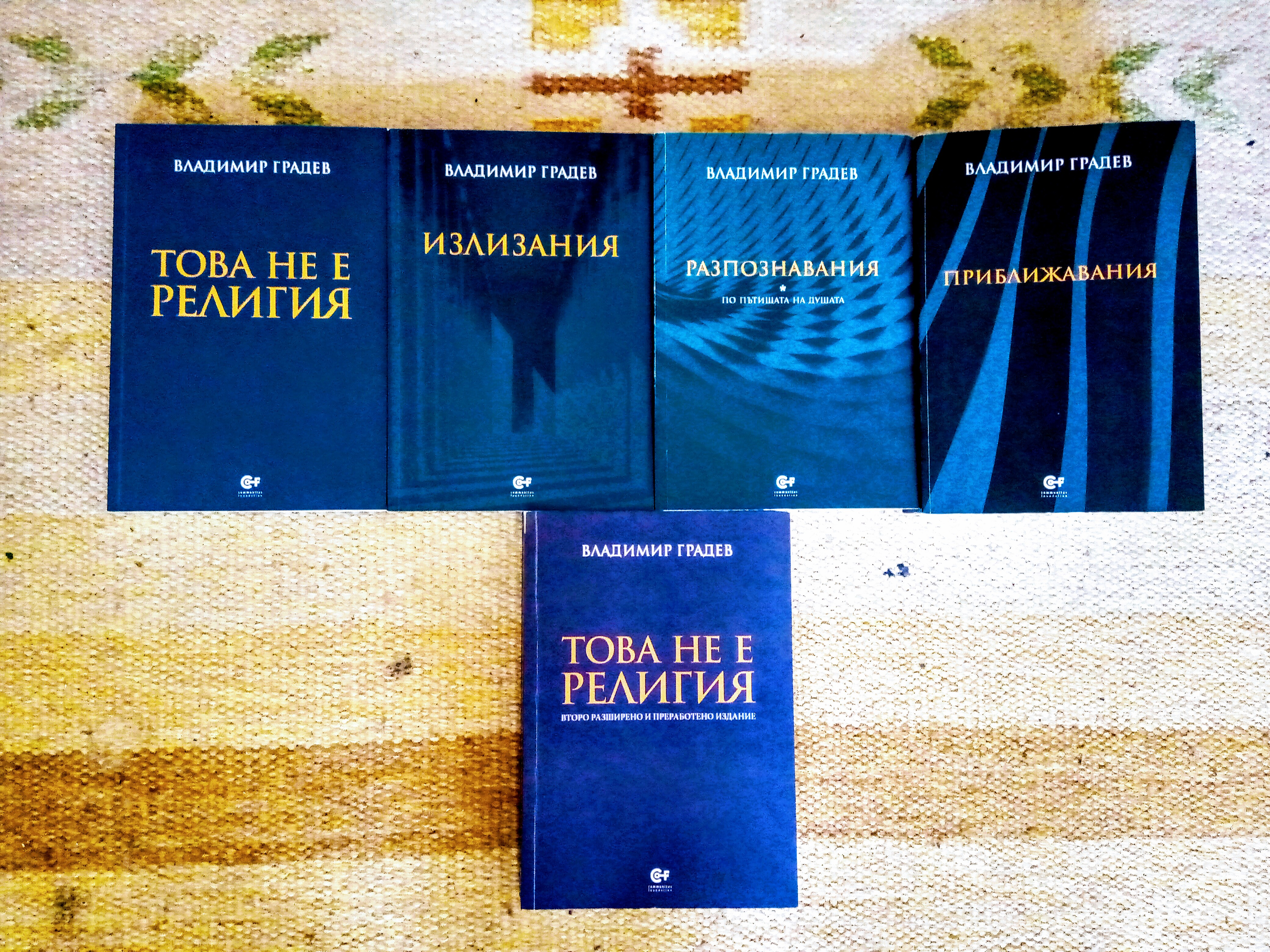 Vladimir Gradevs Theory of Religion 2013-2019